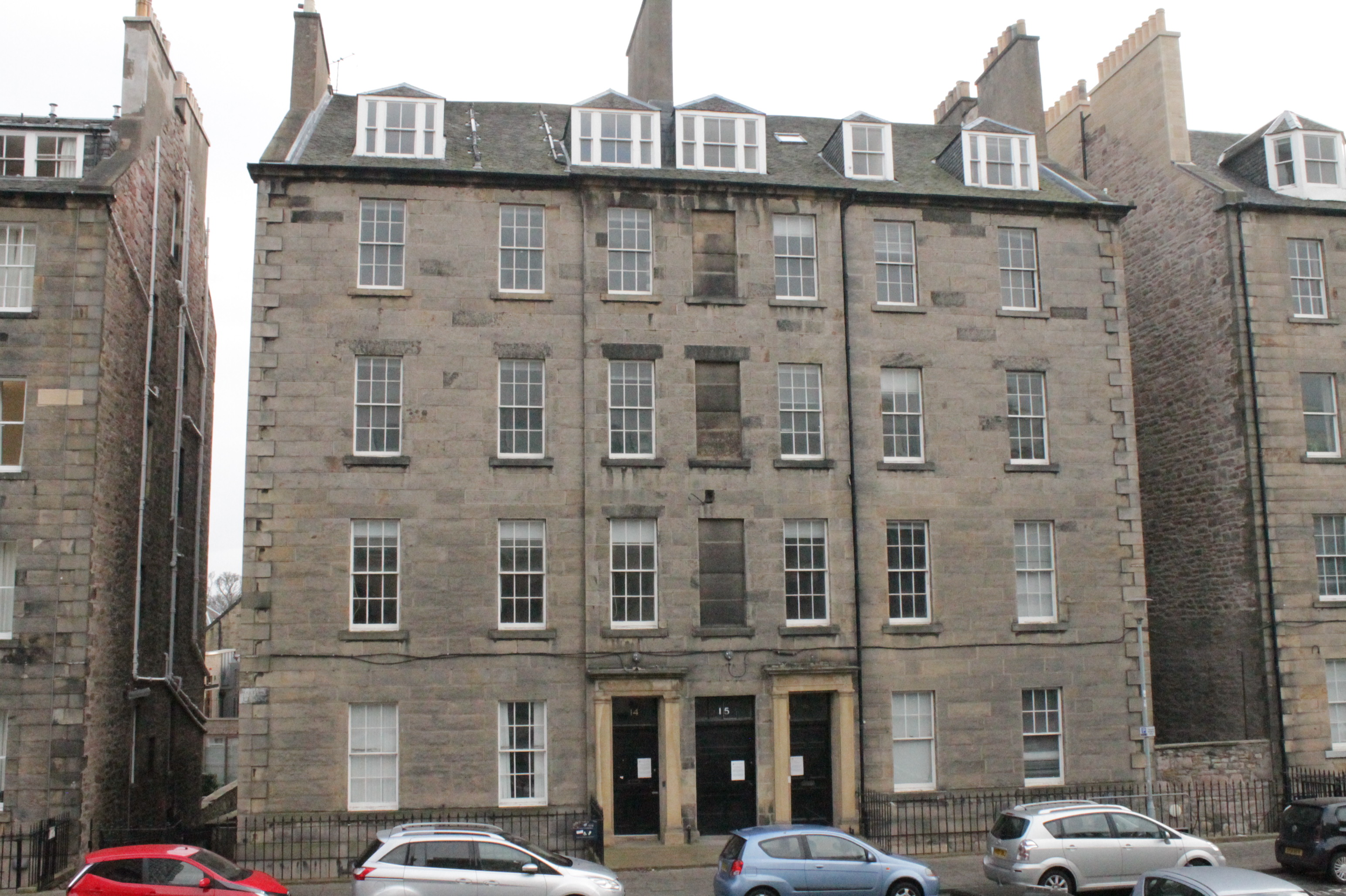 14, 15, 16 Buccleuch Place in Edinburgh